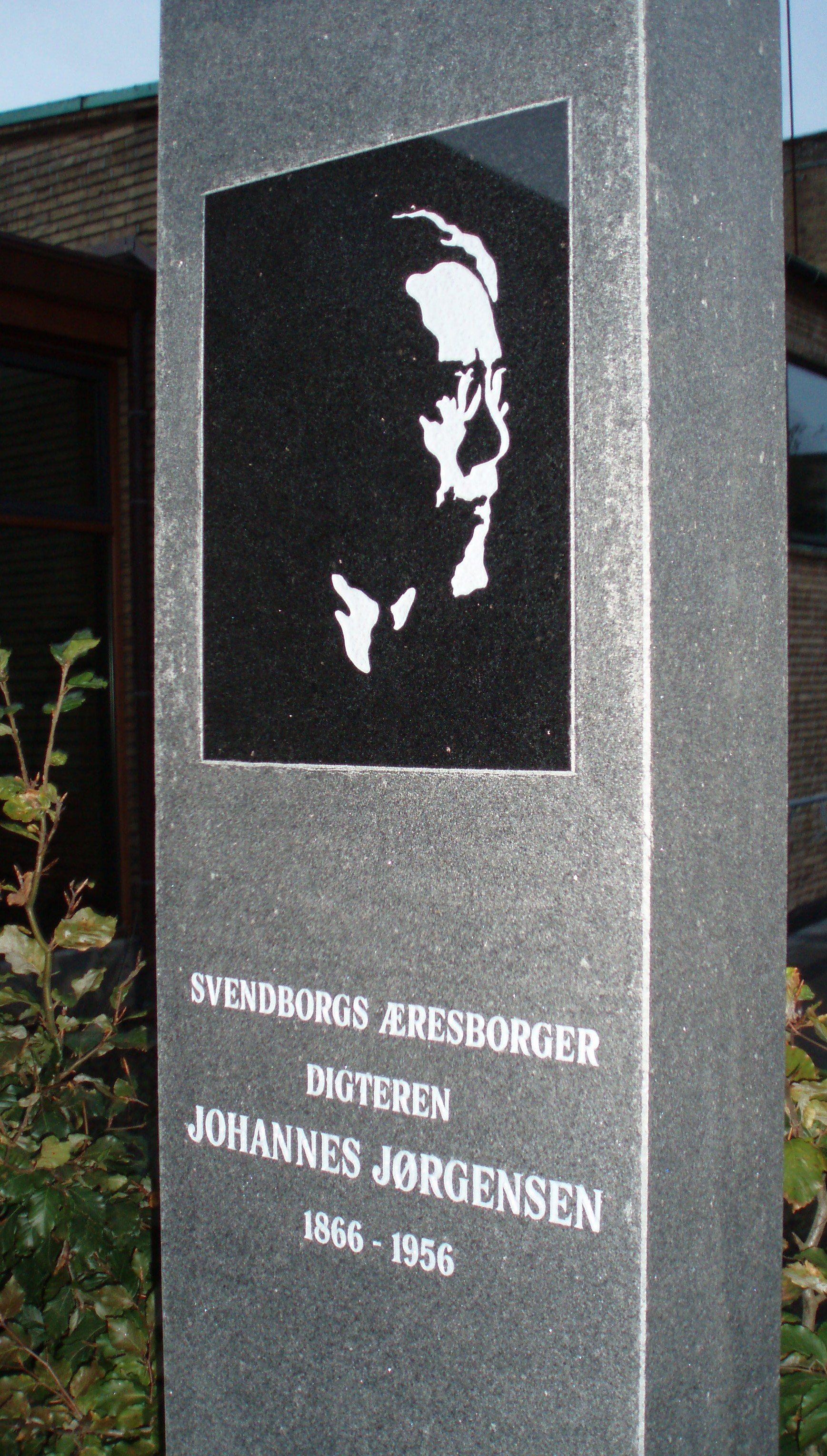 Memorial stone of the danish writher Johannes Jørgensen in Svendborg